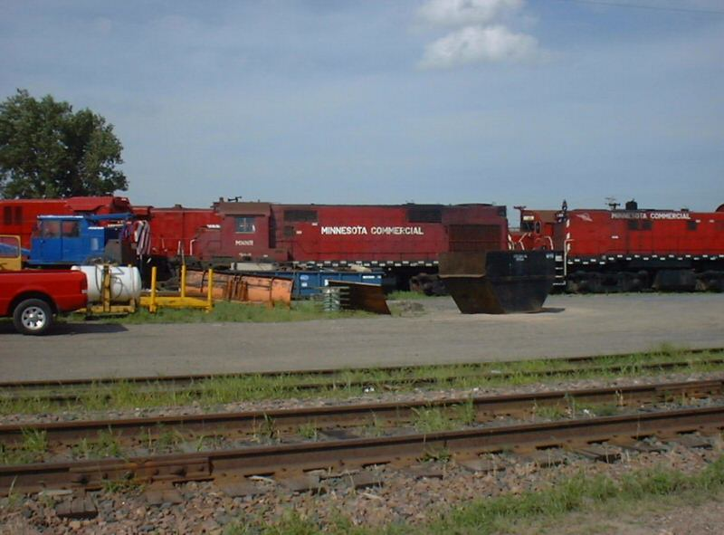 Locomotives of the Minnesota Commercial Railway in St. Paul, Minnesota. The center locomotive is an unidentified ALCO RS-27; the right locomotive is MNNR #80, a MLW RS-23.